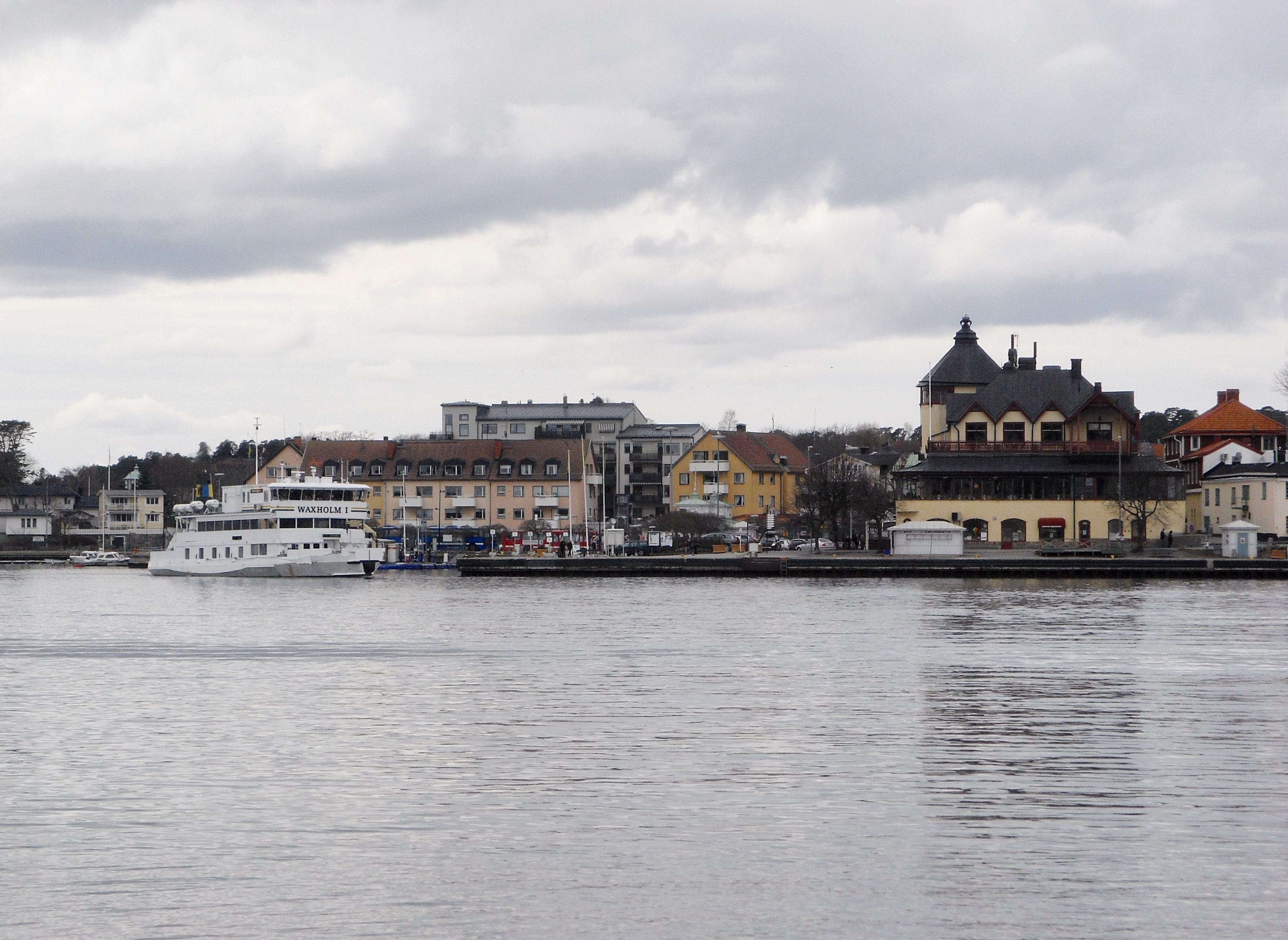 Vaxholm, Sweden